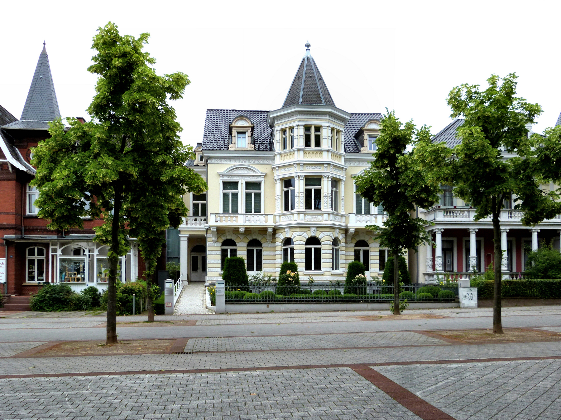 Listed Villa (named Quisisana)